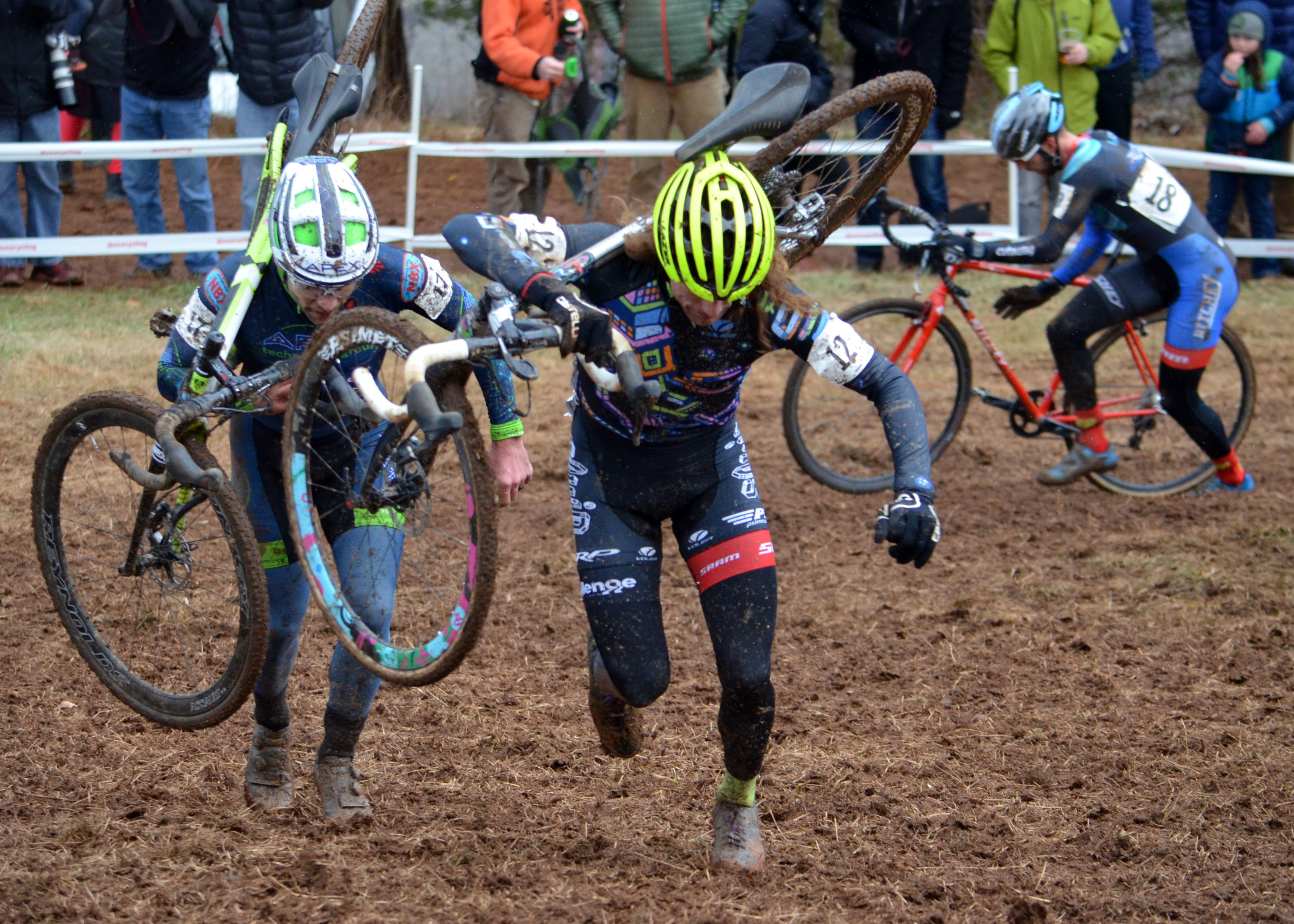 CX Nationals 2016